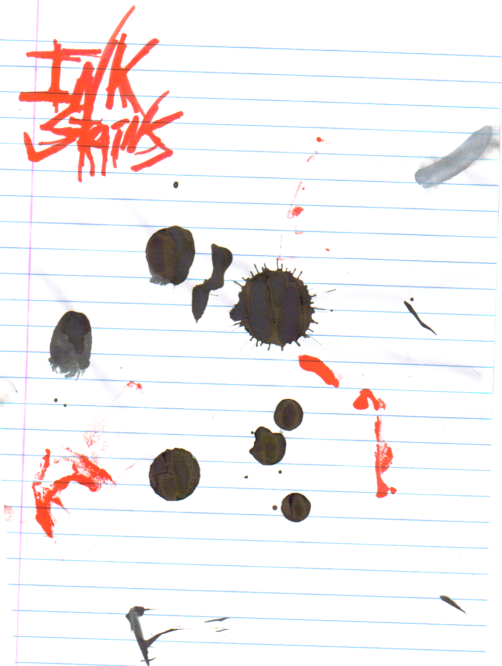 Ink blotches. Free to use.